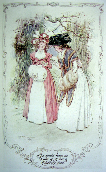 Ch 22 of Sense and Sensibility, (Jane Austen Novel) : Lucy was showing a picture to Elinor, who could have no doubt of its being Edward's face